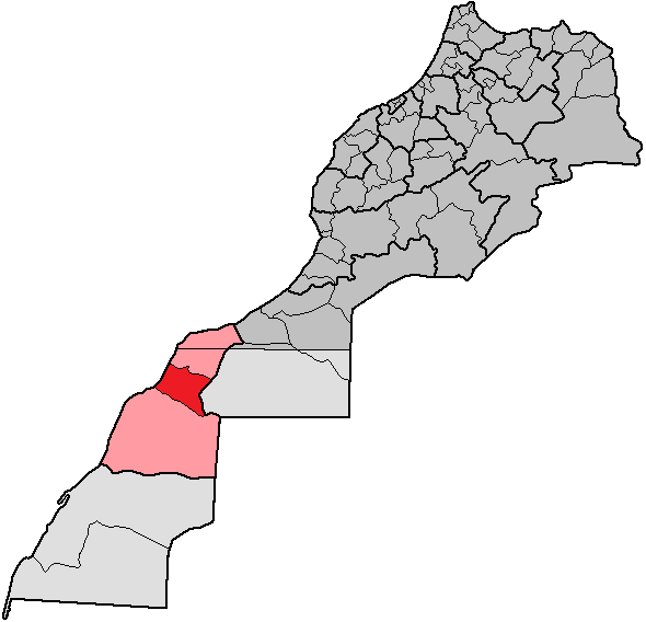 Location of the province Laâyoune within the region Laâyoune-Boujdour-Sakia El Hamra, Morocco. In total, Morocco has 16 regions, subdivided into 62 provinces and 13 prefectures.